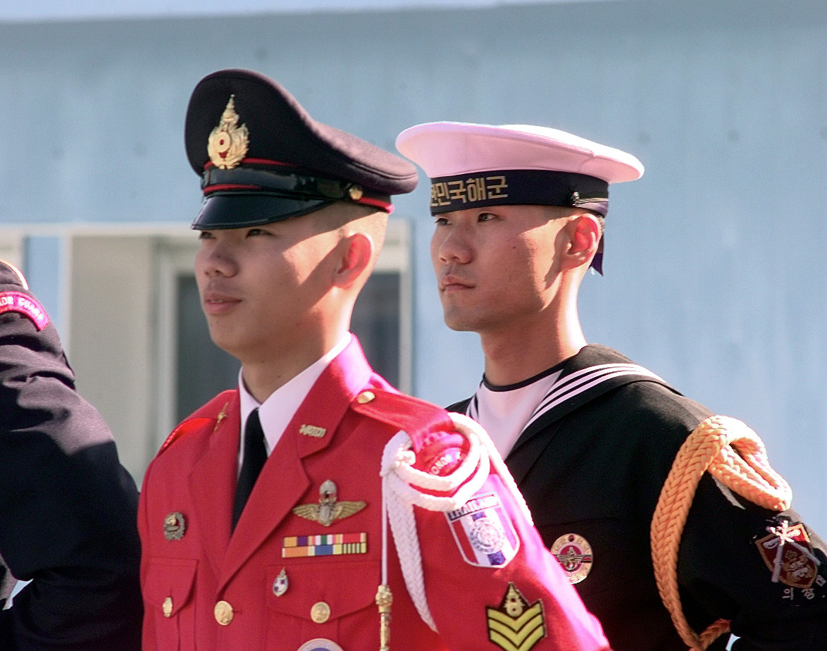 Members of the United Nations Command honor guard stand at attention before the start of a repatriation ceremony held at the Joint Security Area, Panmunjom, Republic of Korea, Nov.6, 1998. Repatriation of Korean War remains are the result of a U.S./Democratic Peoples Republic of Korea joint recovery operation within North Korea to locate and return the U.S. service members to their homeland through Panmunjom. Twenty-two service members have been returned this year, 29 since the joint recovery operation began in 1996. (U.S. Air Force photo by Staff Sgt. Steve Faulisi)(Released)